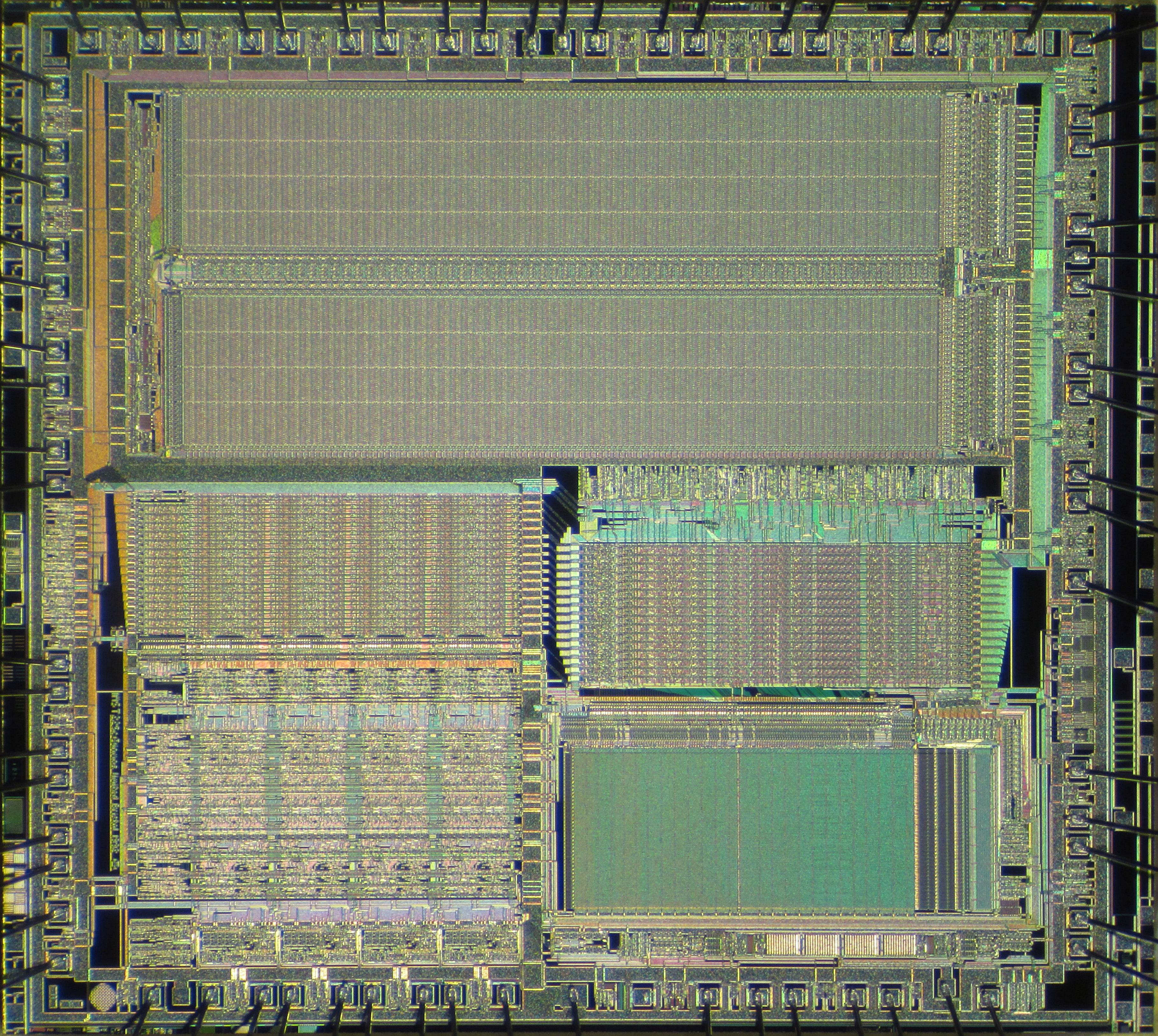 Die shot of Inmos T225 transputer (IMST225-G20SC).